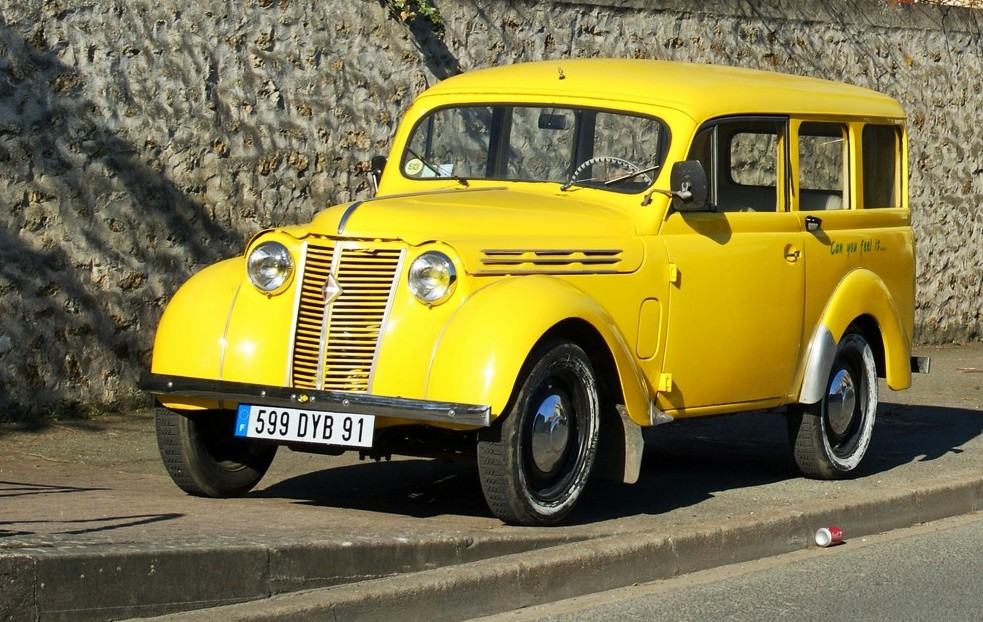 Renault Dauphinoise (Juvaquatre break) Essonne